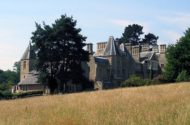 Greathed Manor, near Dormansland, Surrey. See 195580